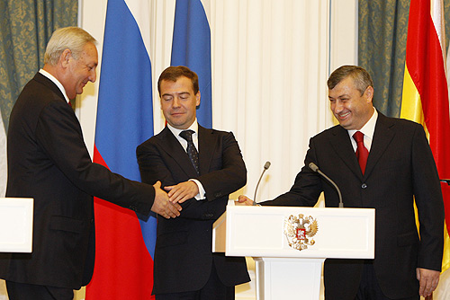 THE KREMLIN, MOSCOW. With President of Abkhazia Sergei Bagapsh (on the left) and President of South Ossetia Eduard Kokoity.